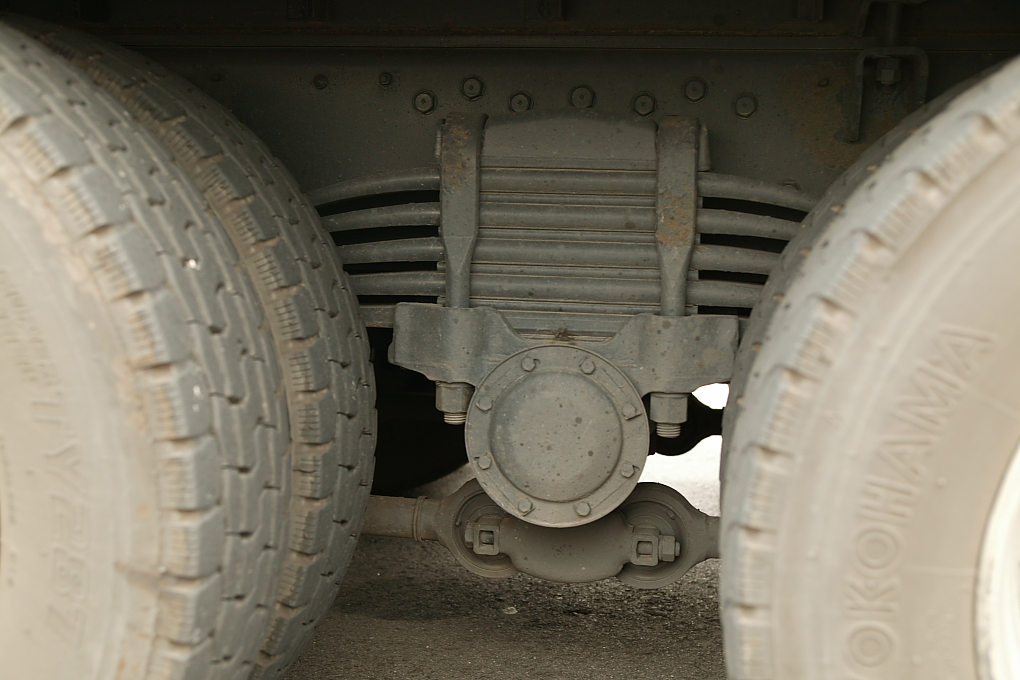 Trunnion shaft and rinks with taper ieaf spring of the heavy duty truck.